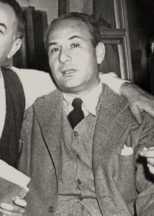 L. to R. : Louisa Horton, Edward G. Robinson, Chester Erskine (producer) & Burt Lancaster on the set of All My Sons (1948) - publicity still.